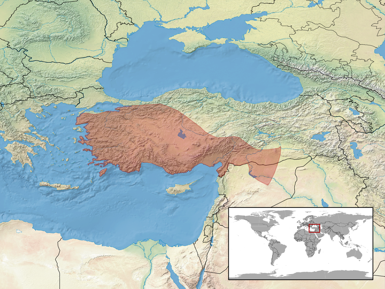 Geographic distribution of Trachylepis aurata. The map is based on IUCN's Red List, the range described in The Reptile Database is much larger.